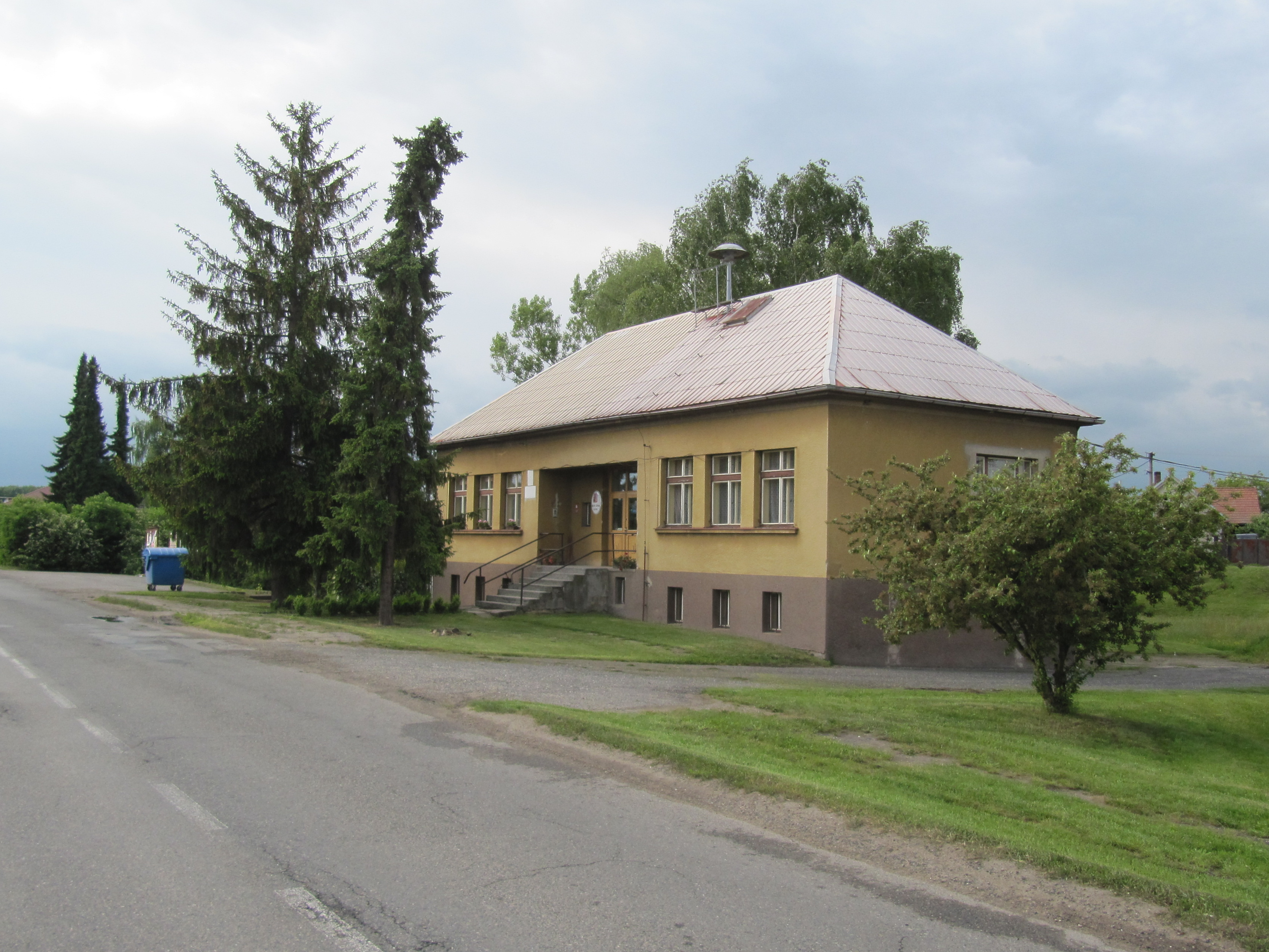 Ostrá, Nymburk District, Czech Republic, part Borek. Municipal office.